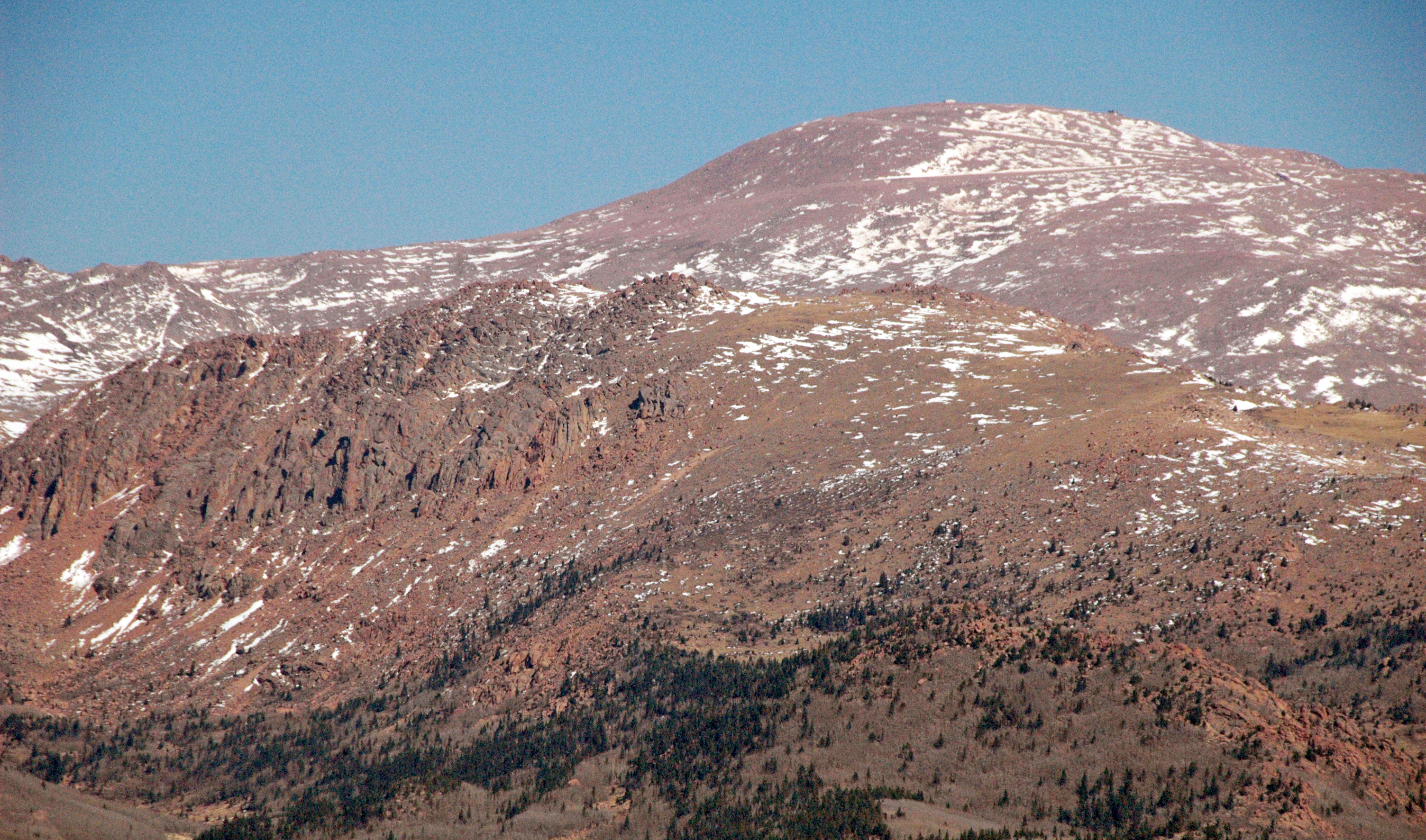 Granite in the Precambrian of Colorado, USA Pikes Peak is a famous mountain in the American Cordillera. The correct spelling "Pike's Peak" has been suppressed. The reddish-pinkish rocks of the mountain and surrounding areas are part of the Pikes Peak Batholith, a fairly large, Precambrian igneous intrusion that was emplaced 1.08 billion years ago. Several igneous facies are present. Geologic unit: Pikes Peak Batholith, late Mesoproterozoic, 1.08 Ga Locality: Pikes Peak (looking northeast from the Ironclad area of the Cripple Creek Mining District), west of the town of Colorado Springs, western El Paso County, central Colorado, USA